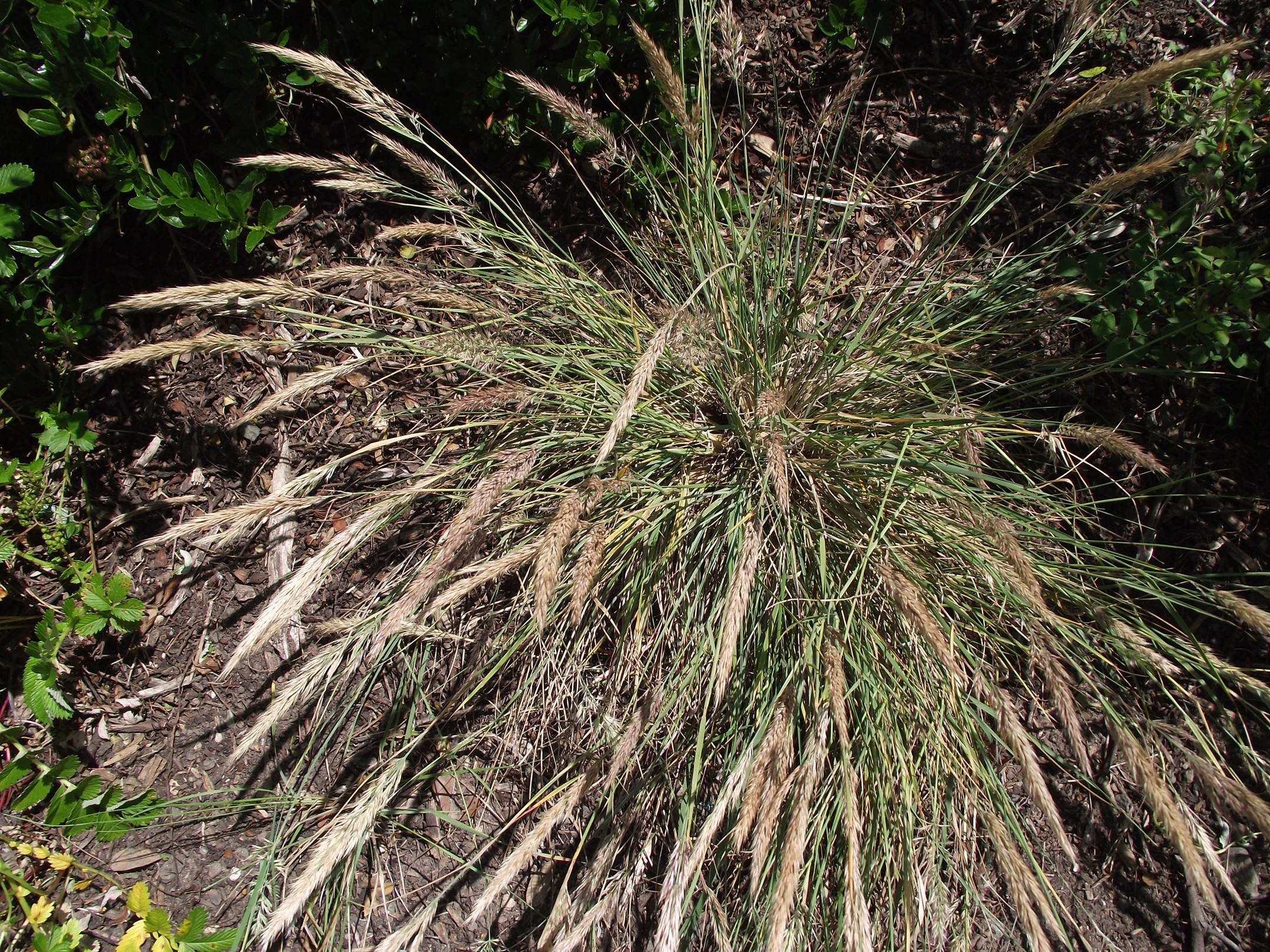 Calamagrostis foliosa at UC Botanical Garden, Berkeley, California, USA. Identified by sign.